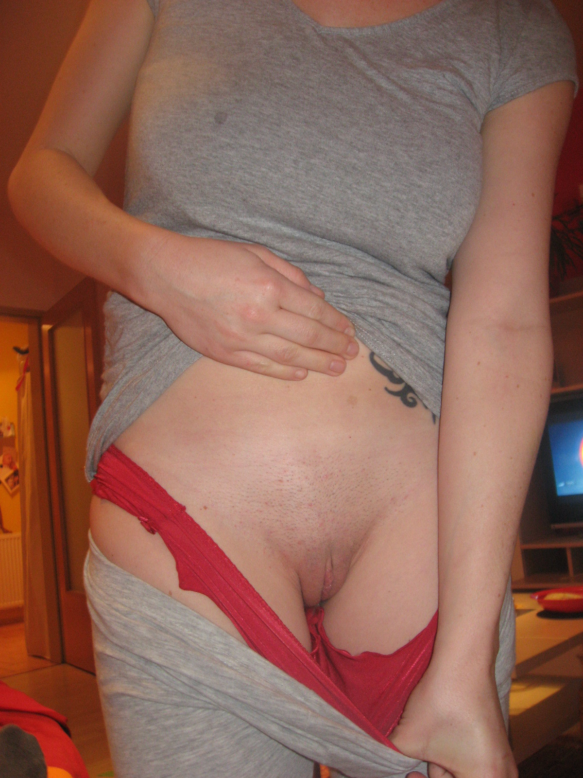 For some years now, the market for cosmetic genital surgery is rapidly growing while young women are increasingly concerned with their bodies. Courageous cunts is an activist group to oppose this trend. We started the Vulva Libertad initiative to convey an image of normal - not pornified - vulvas. This is a grassroots project! Get active, join in!